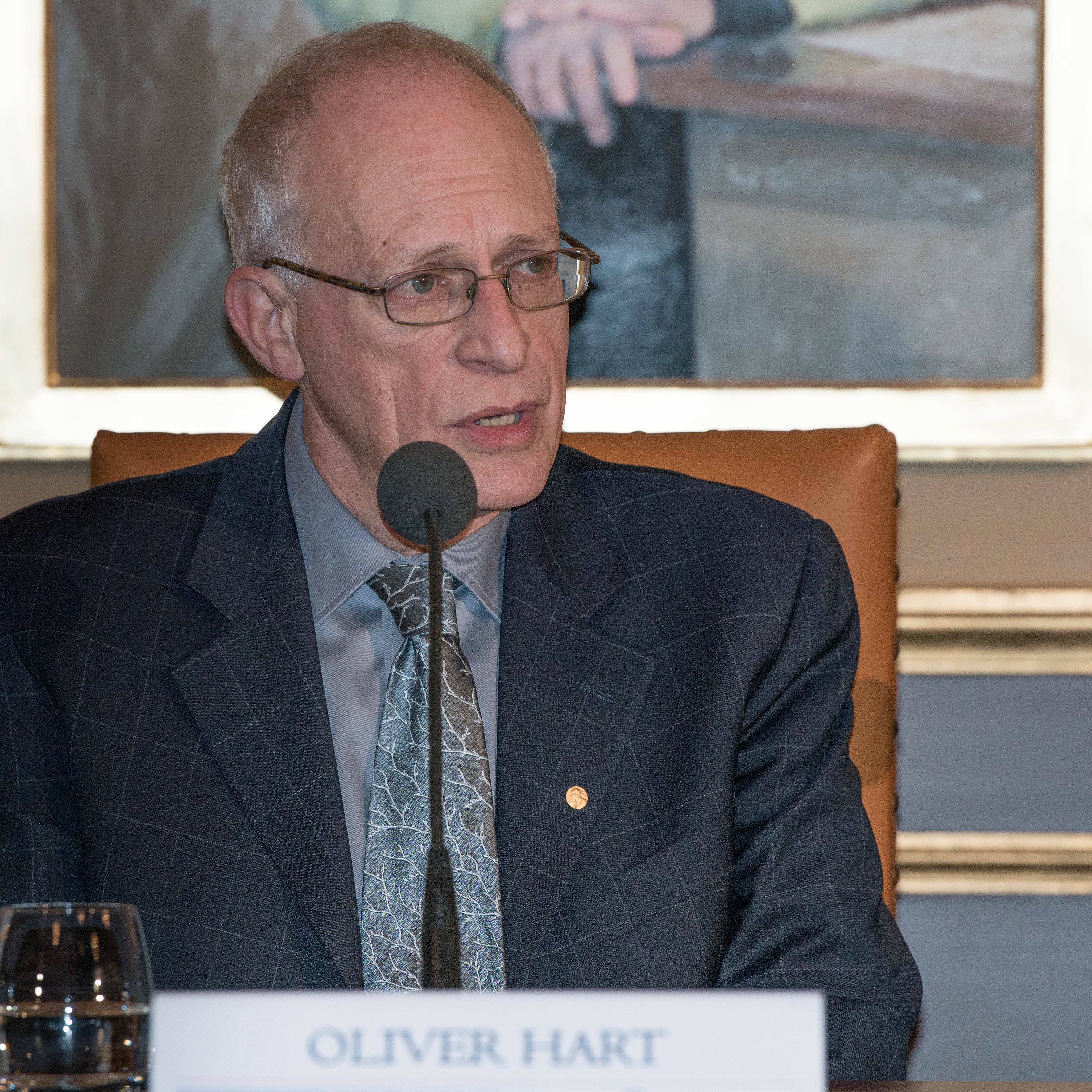 Nobel Prize 2016 Nobel Laureates 2016 Oliver Hart